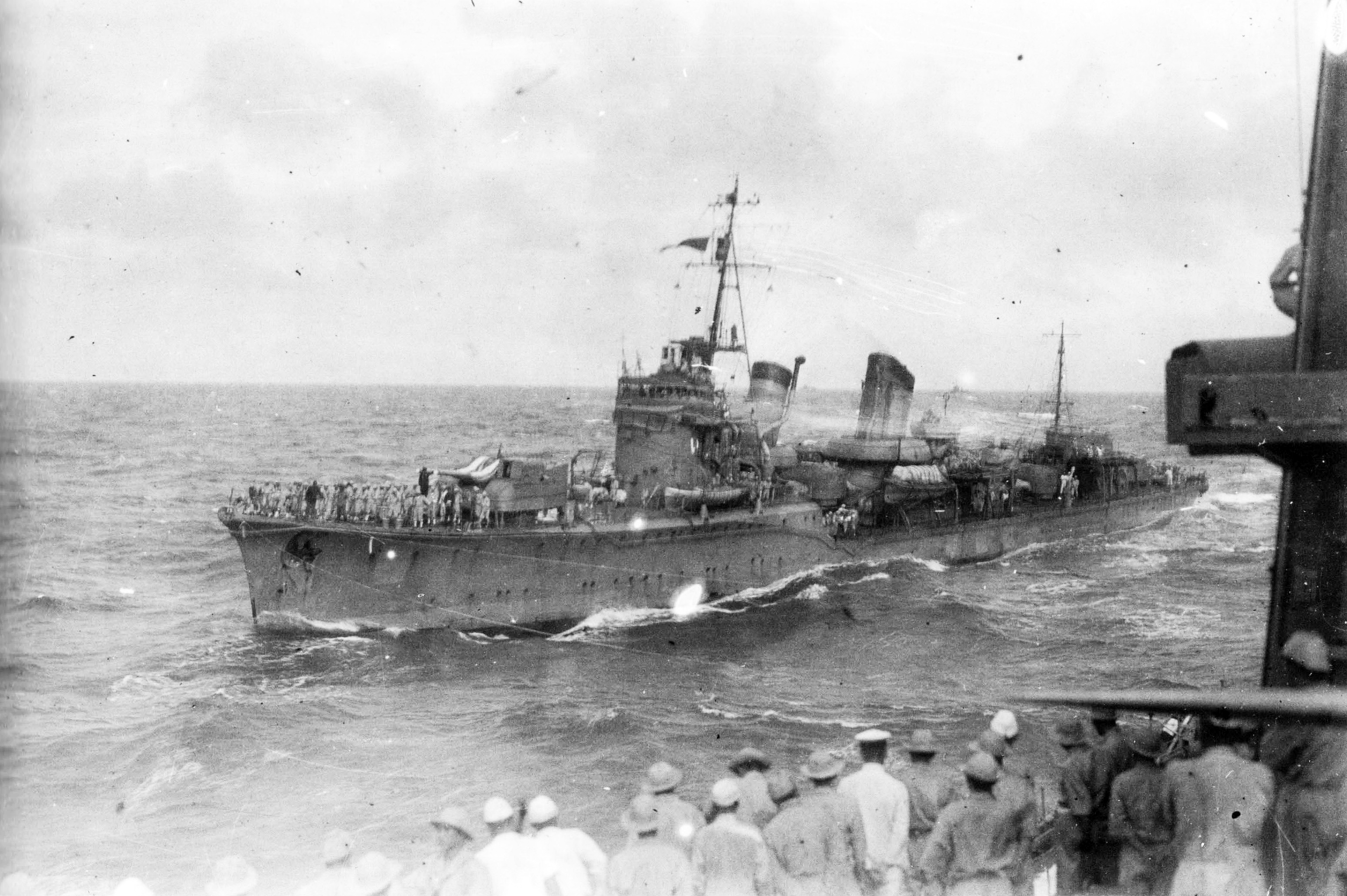 Imperial Japanese Navy destroyer Hibiki, the second Japanese warship to bear that name.